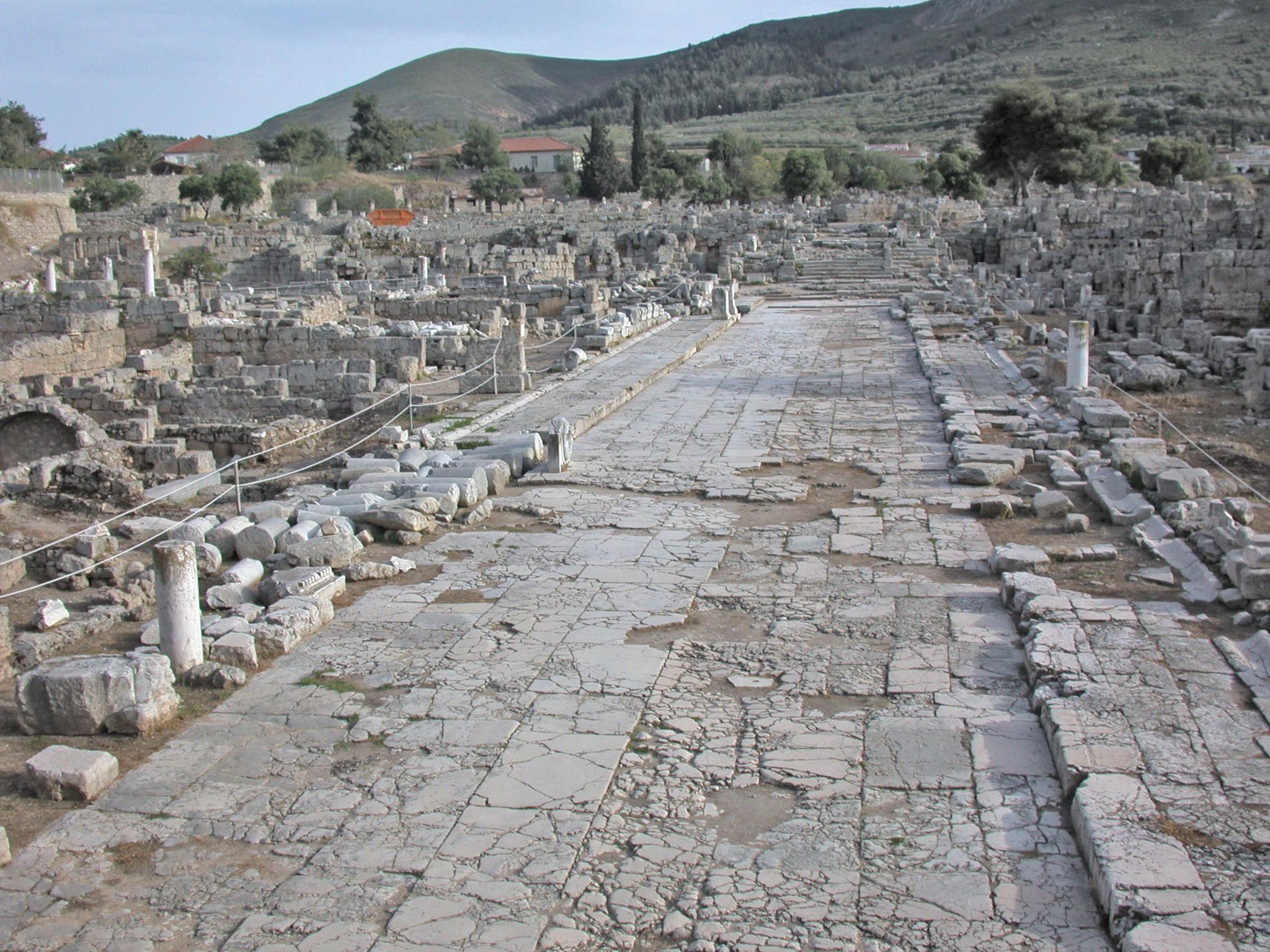 Ancient Corinth, urban street